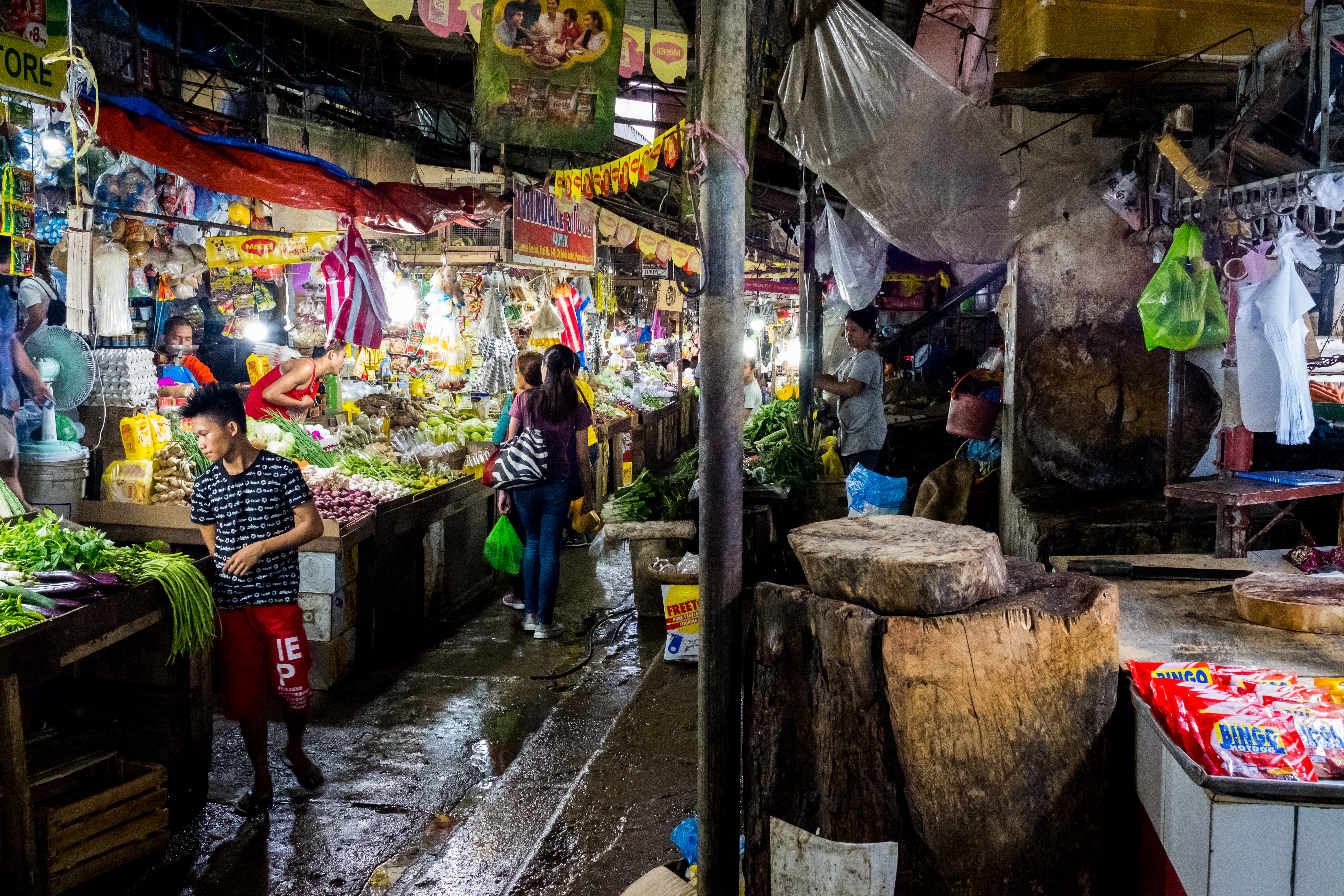 July 2017. Local markets provide for wants and needs. Being able to purchase rice, fish, and other goods is a primary driver of the need for cash and desire to be involved in enterprise projects. Puerto Princesa, Palawan, Philippines. Photograph by Jason Houston for USAID